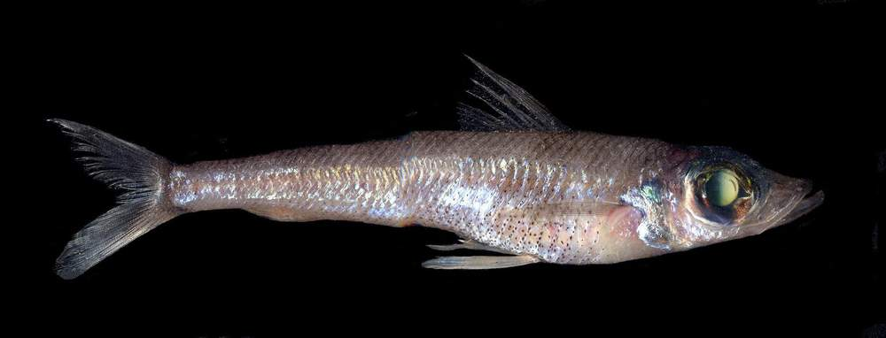 Chlorophthalmus agassizi photographed by Pierluigi Angioi